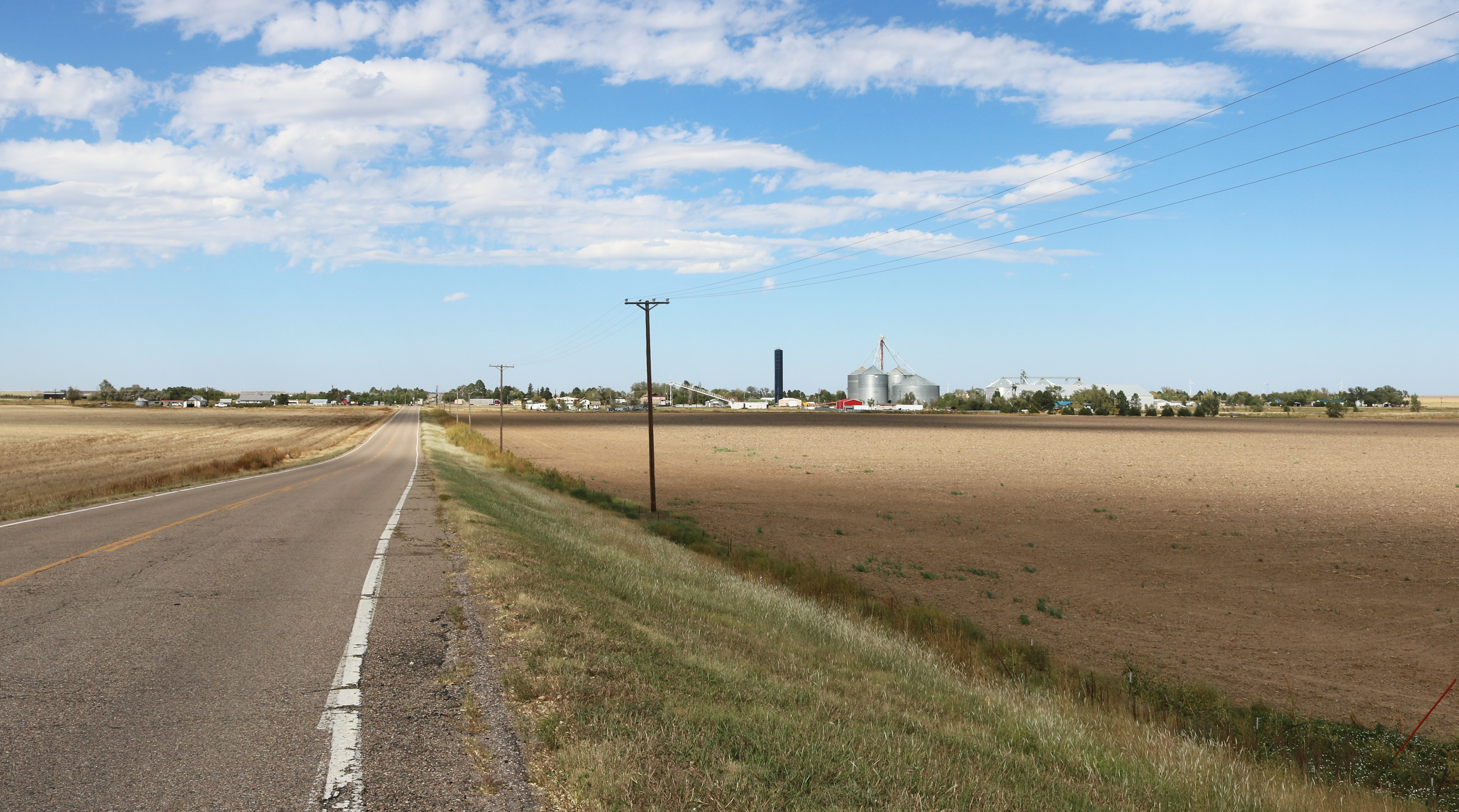 A view of Bethune, Colorado. The view is from the south at the intersection of County Road 40 and Interstate 70, at the top of the westbound offramp.